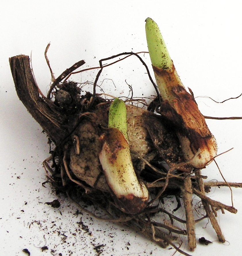 Bletilla striata, the pseudobulbs with the young sprouts